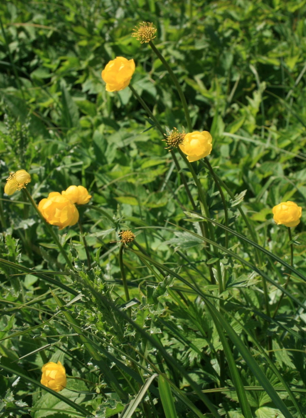 Trollius europaeus: Flowers. Photo from the bog and wetland of Kasted Mose, northwest of Århus.